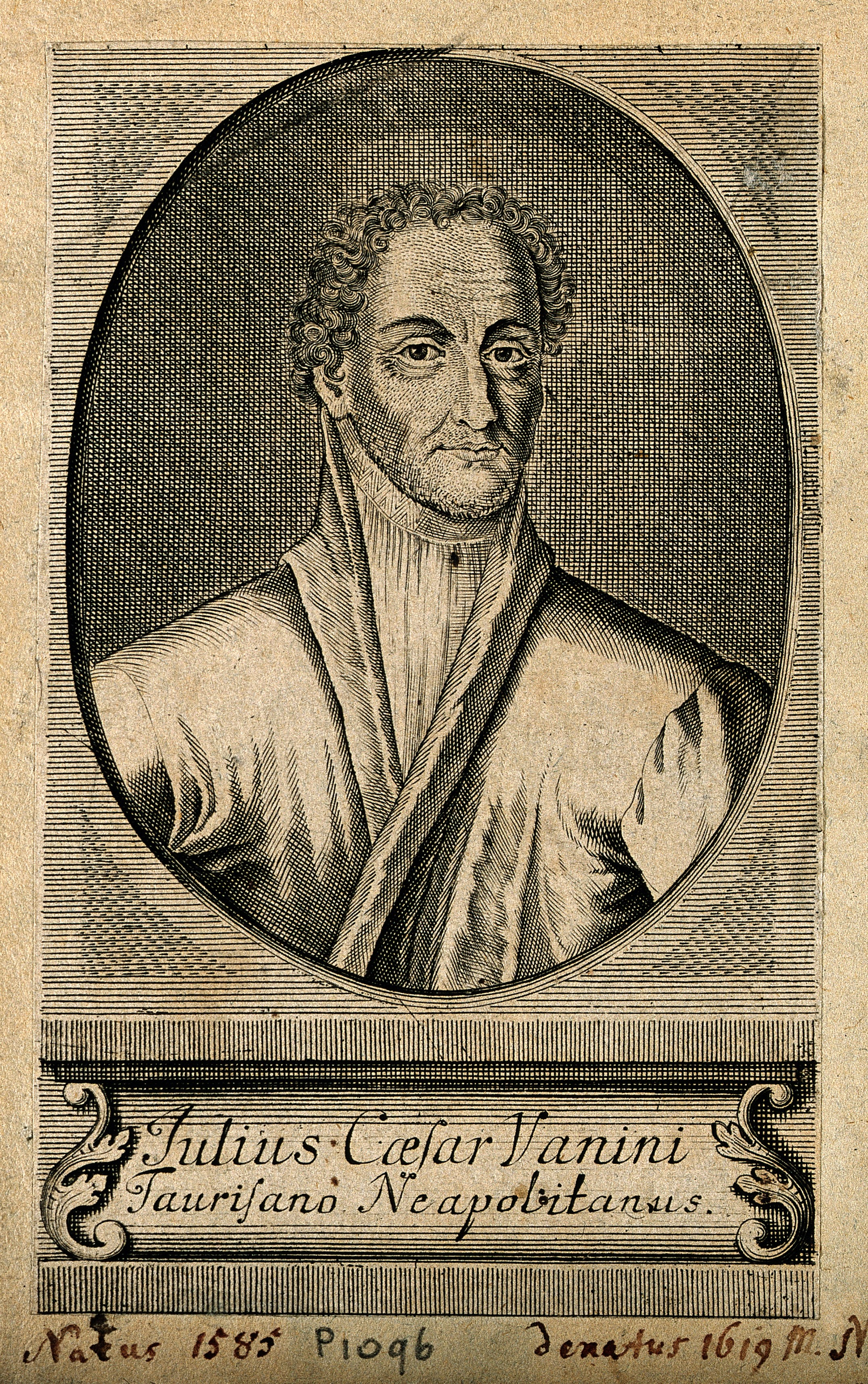 Lucilio [Julius Caesar] Vanini. Line engraving. Iconographic Collections Keywords: portrait prints; engravings; Lucilio Vanini